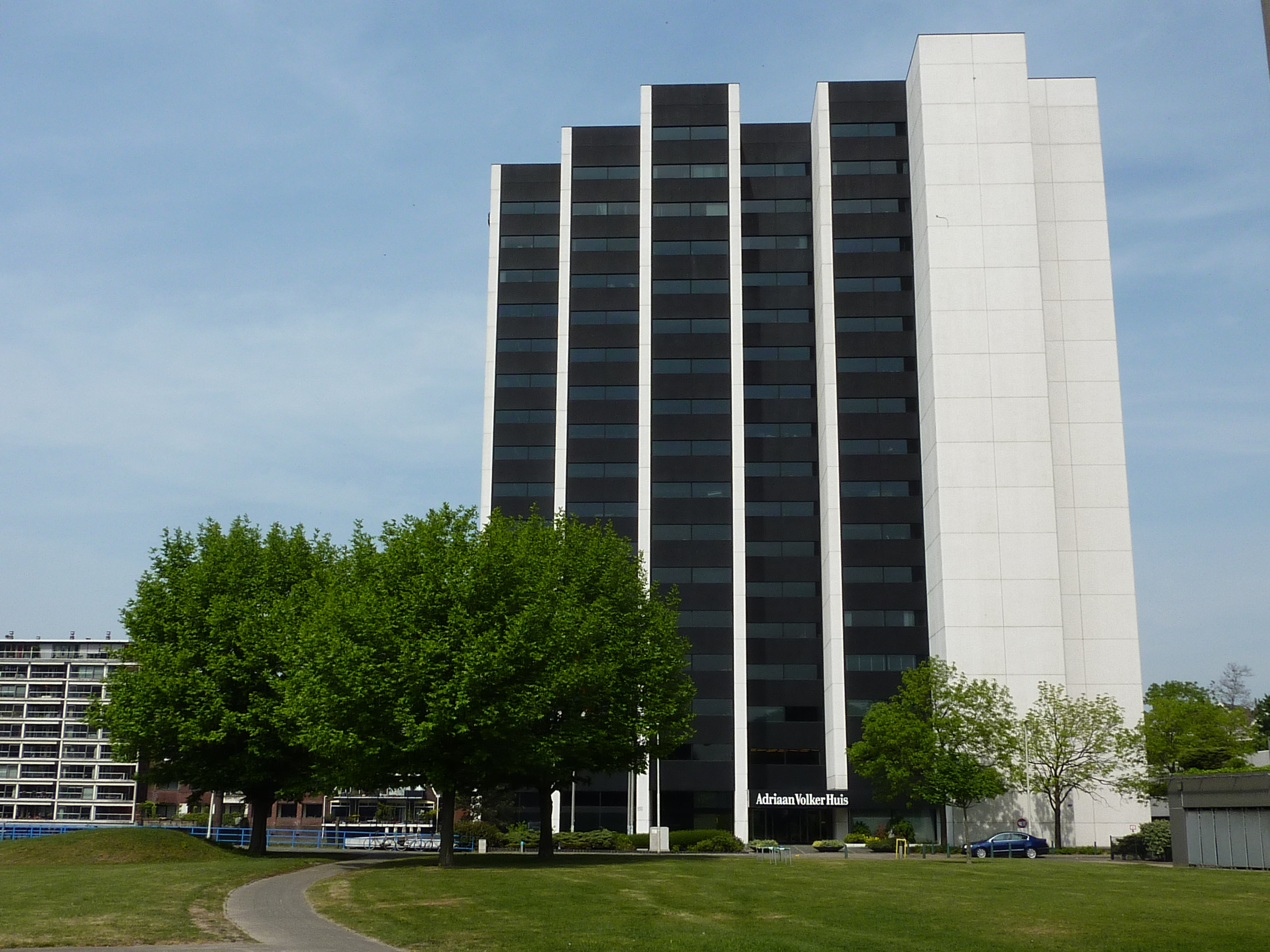 Building named "Adriaan Volkerhuis" in Rotterdam, designed by architect Peter Gerssen